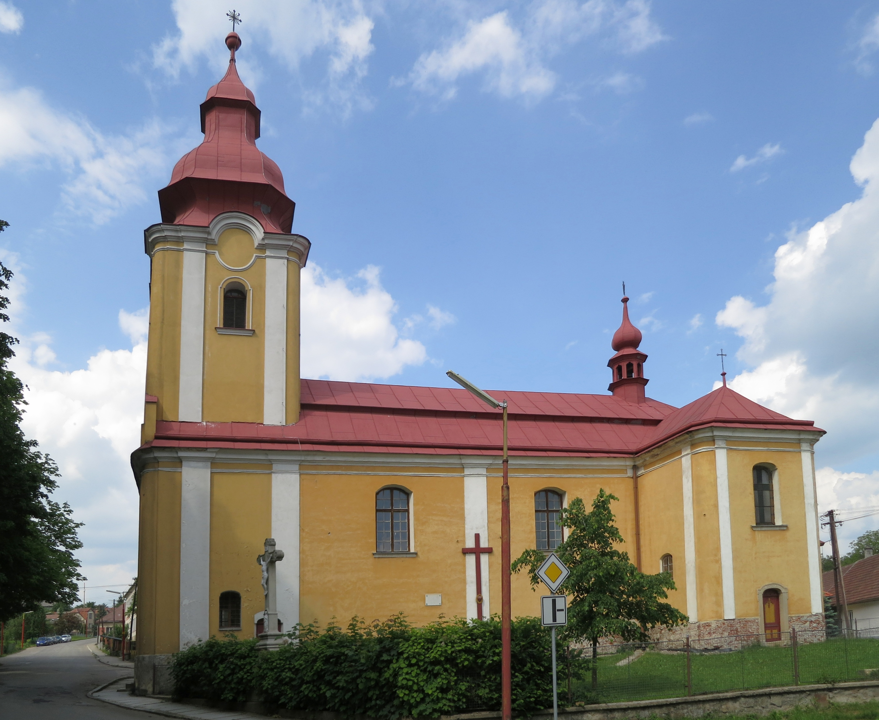 Overview of church of Saint Lawrence in Krasonice, Jihlava District.